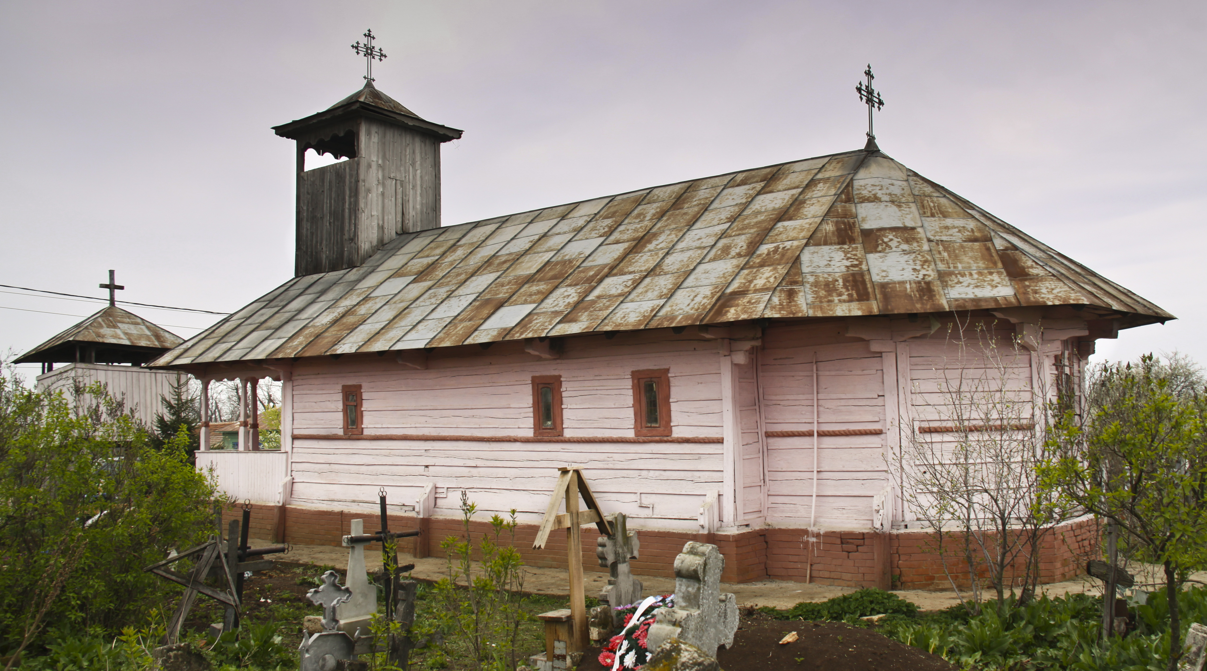 Merişani, Teleorman county, Romania: the wooden church.